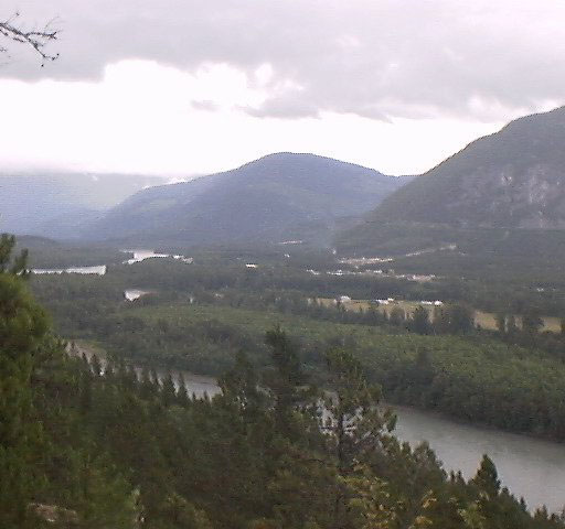 Thornhill, BC Keith Freeman photo. . Taken August, 2000